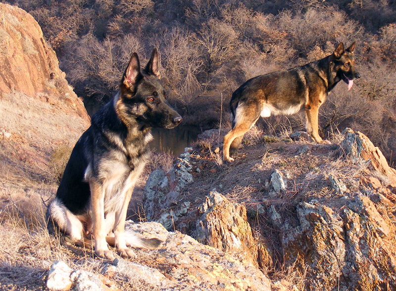 Two German shepherds in a ravine in Oklahoma USA. Taken specifically for the Wikipedia German shepherd page, as it shows better examples of GSD color having both a sable and a bi-color, it has dogs that do NOT have fur standing out from their body (per the AKC and SV standards), shows the "secondary sexual characteristics" called for by the AKC and SV standards, continues the old picture's justification of the dogs being in natural positions (sitting and standing) as opposed to a stack, and most importantly, does NOT have the dogs wearing collars which flattens the coat and interferes with their lines.